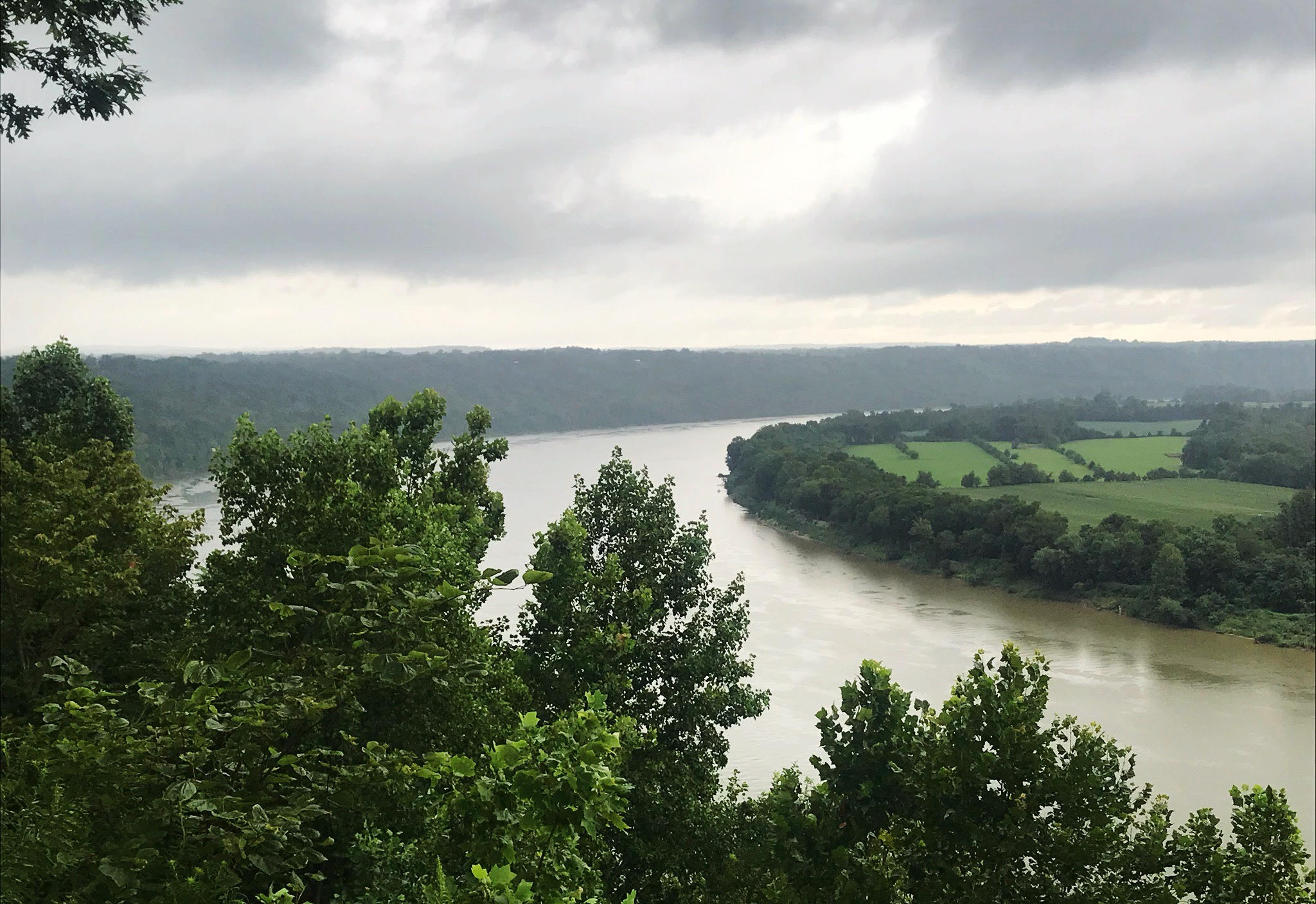 In certain parts of Southern Indiana, the Ohio River can be seen from the hills as seen in here in Crawford County, Indiana looking east towards Leavenworth. At right is Kentucky, an area called Big Bend.